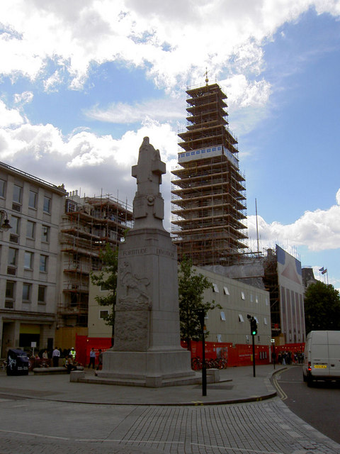 St Martin's in the fields. Covered in scaffold.